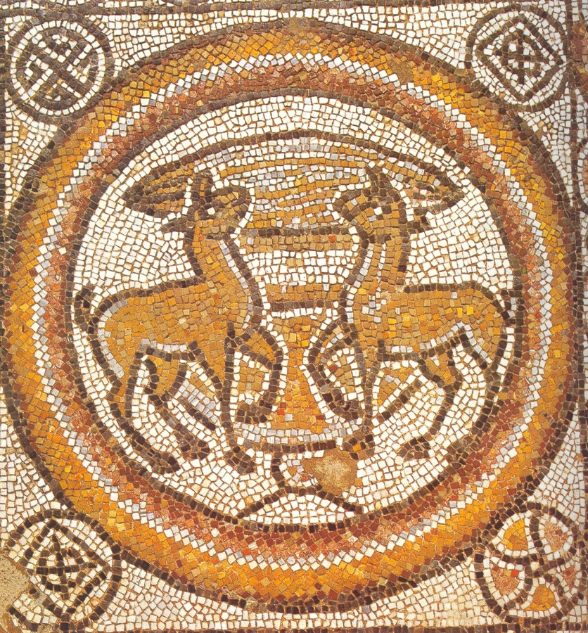 Deer mosaic at Stobi